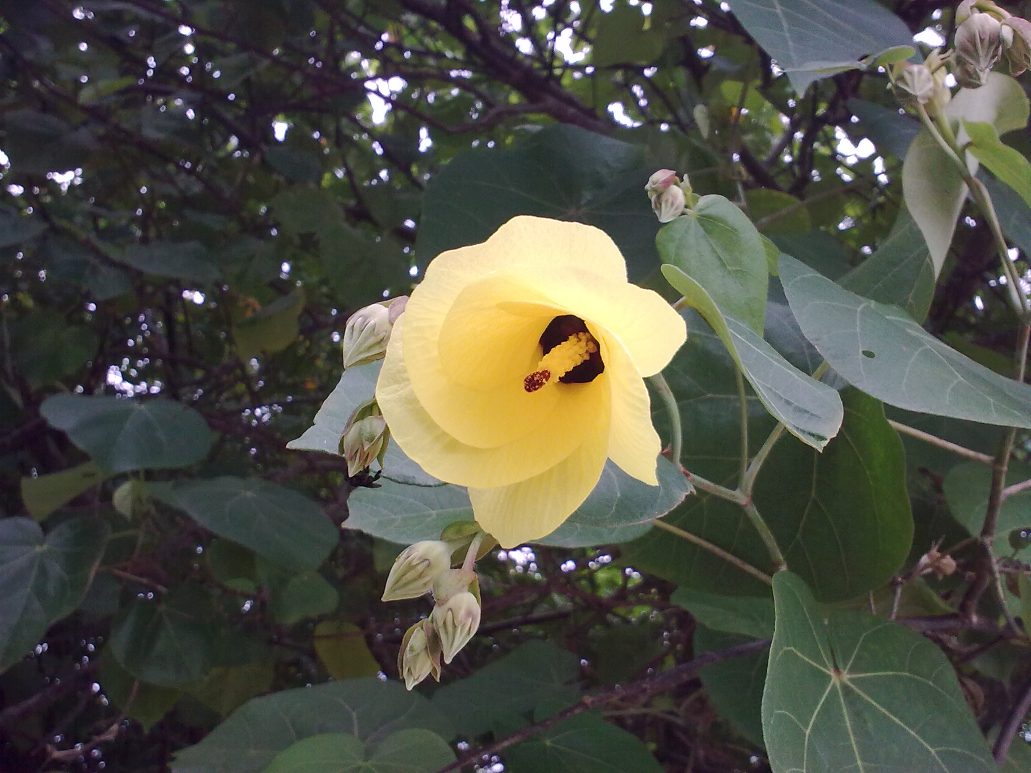 Talipariti tiliaceum in Krabi, Thailand